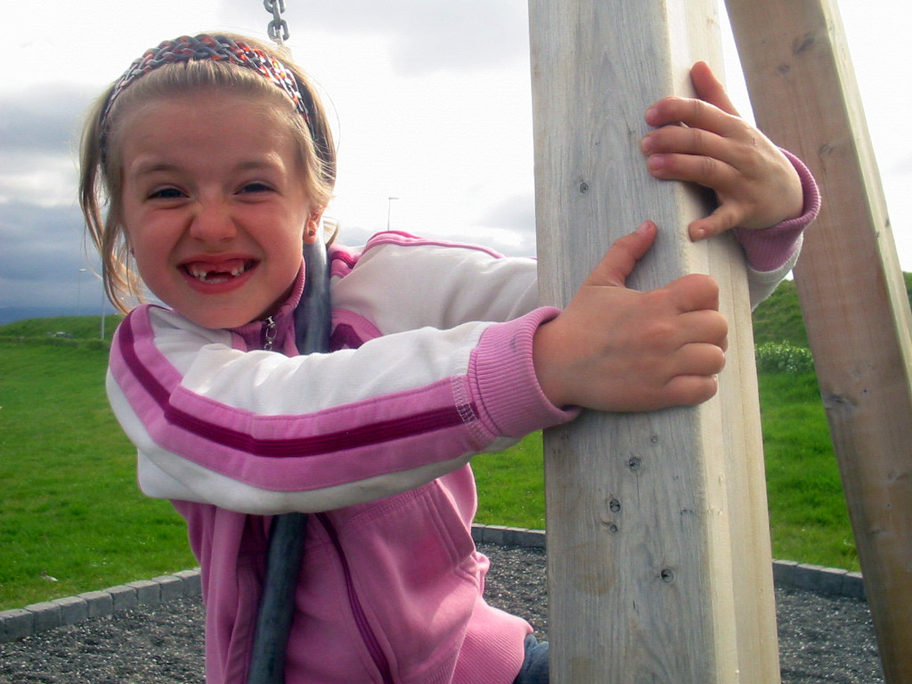 smiley face